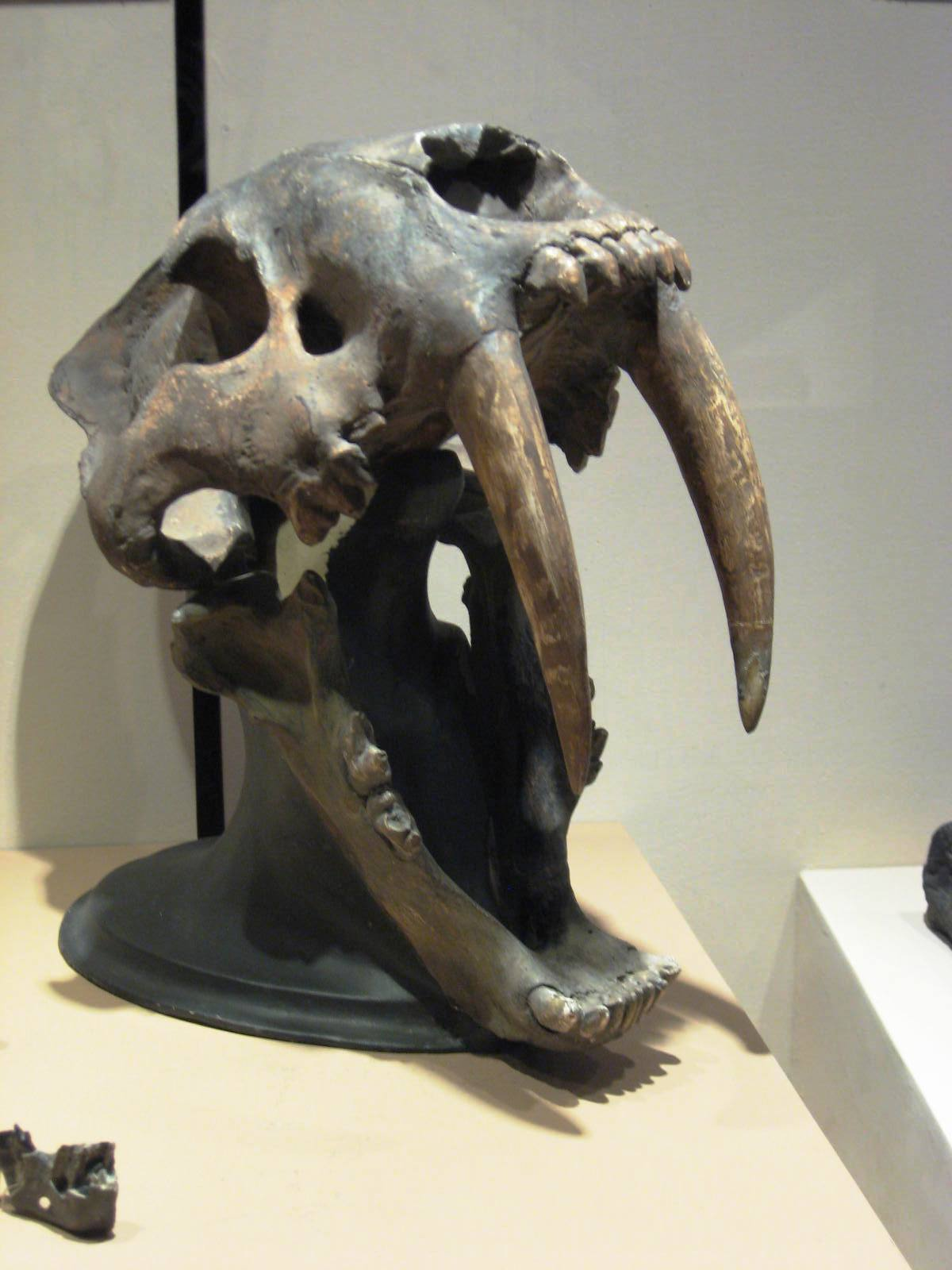 intact skull of a sabertooth tiger on display at the Regional Museum of Guadalajara in Guadalajara Mexico